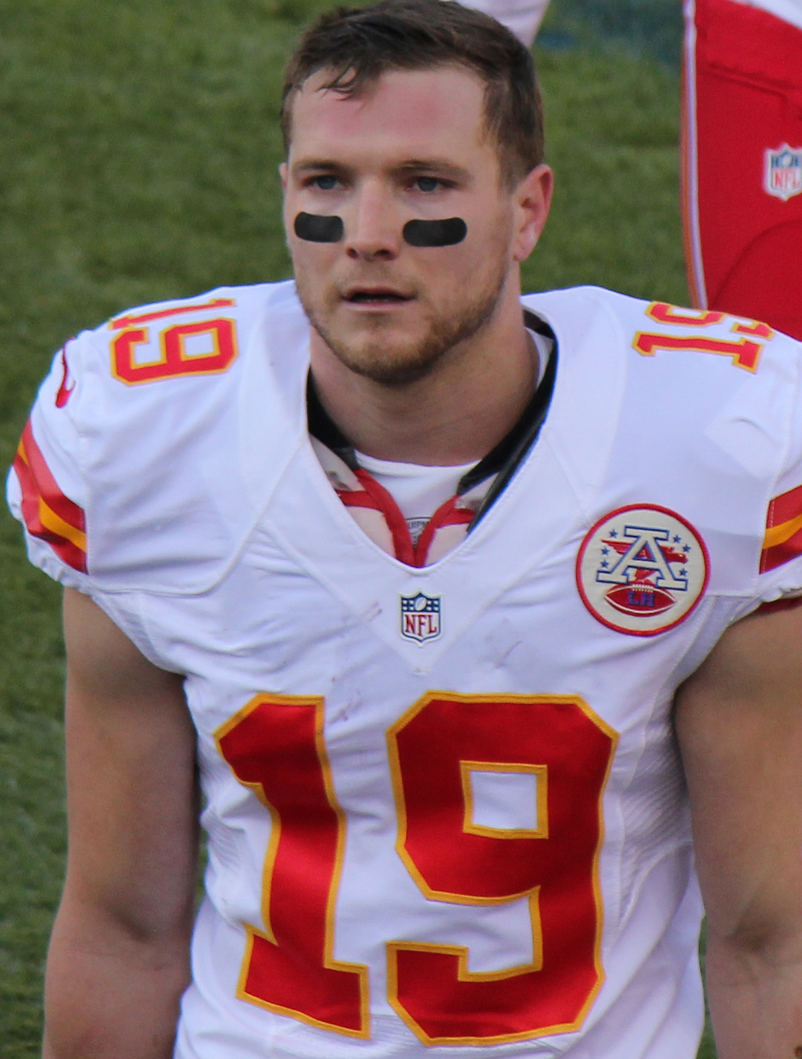 Devon Wylie, a player on the National Football League.